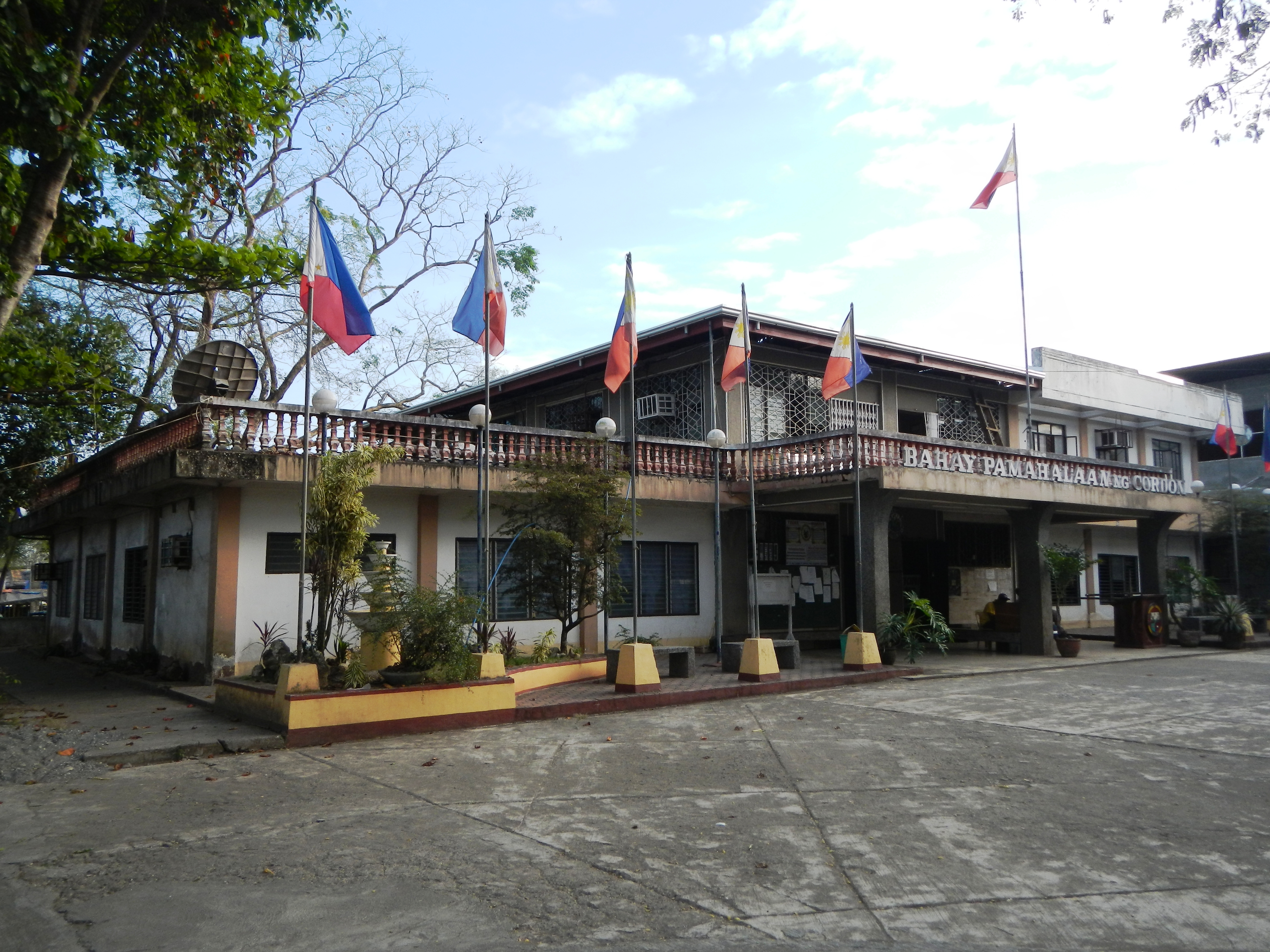 Cordon, Isabela Isabela 3312 province Town Hall of Cordon.